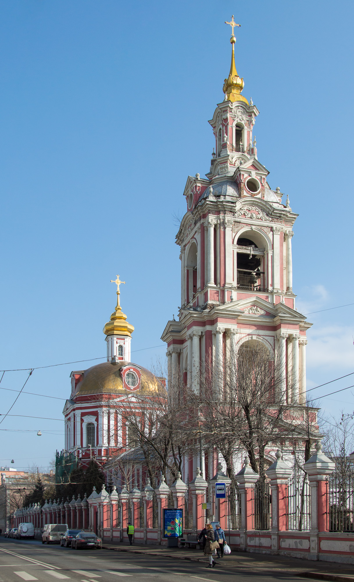 Church of Nicetas the Goth (martyr Nikita), Moscow, Russia